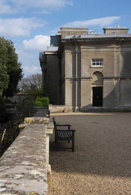 East Wing of Ickworth House The East Wing of the house, the former residence of the Marquess of Bristol, is now the Ickworth Hotel Here it is viewed from in front of the Rotunda.